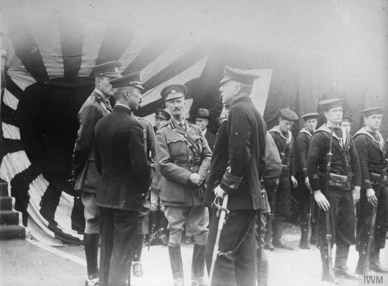 British Diplomacy, 1914-1918 Prince Fushimi chatting with Naval and Army officers on board a British battleship.